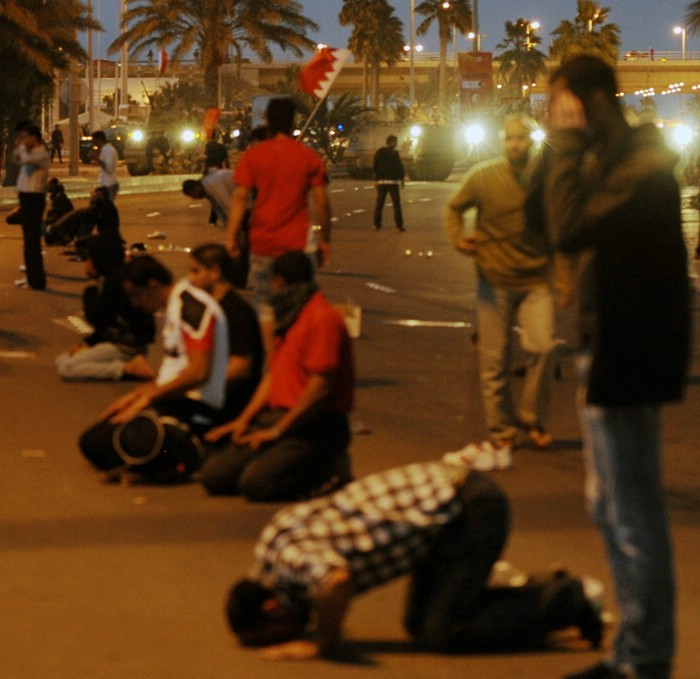 Bahraini protesters praying in front of Army